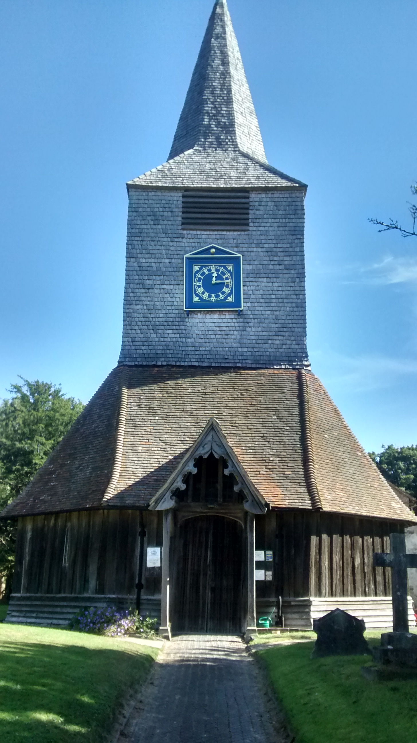 Shows unusual octagonal form of church